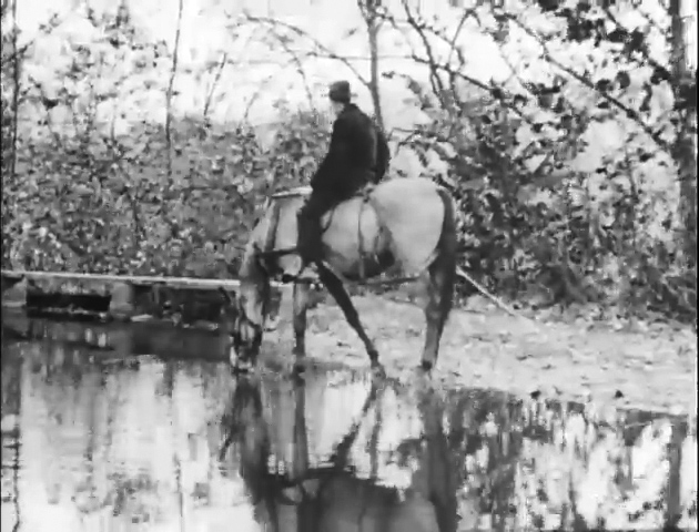 Frame from Down the Old Potomac, illustrating a mule drink or informal overflow, showing boards to walk on as well as the water flowing over towpath.